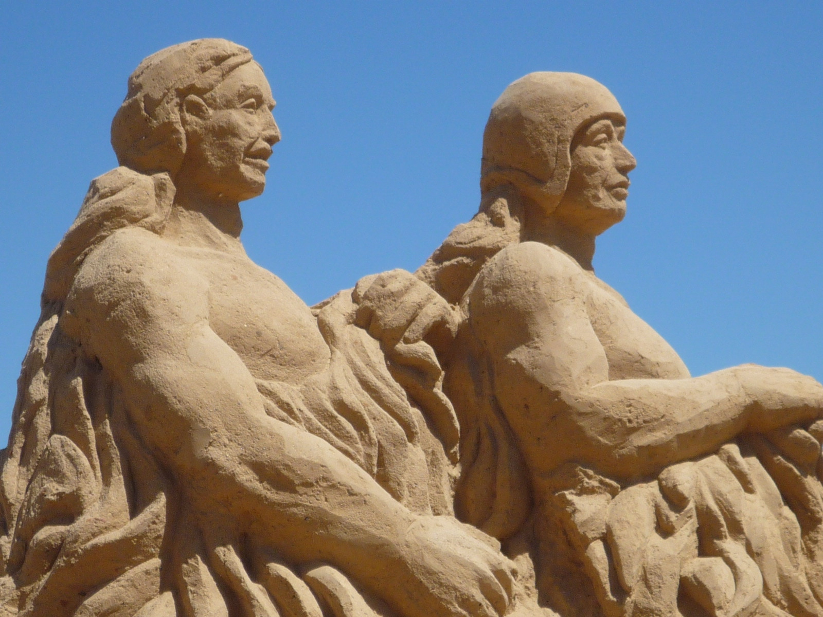 The theme of the Seventh International Sand Sculpture Festival was "discoveries". This depicts a couple of Sumerians. They were the first people to use animal-drawn wheeled vehicles and ploughs. See this and War Chariots.